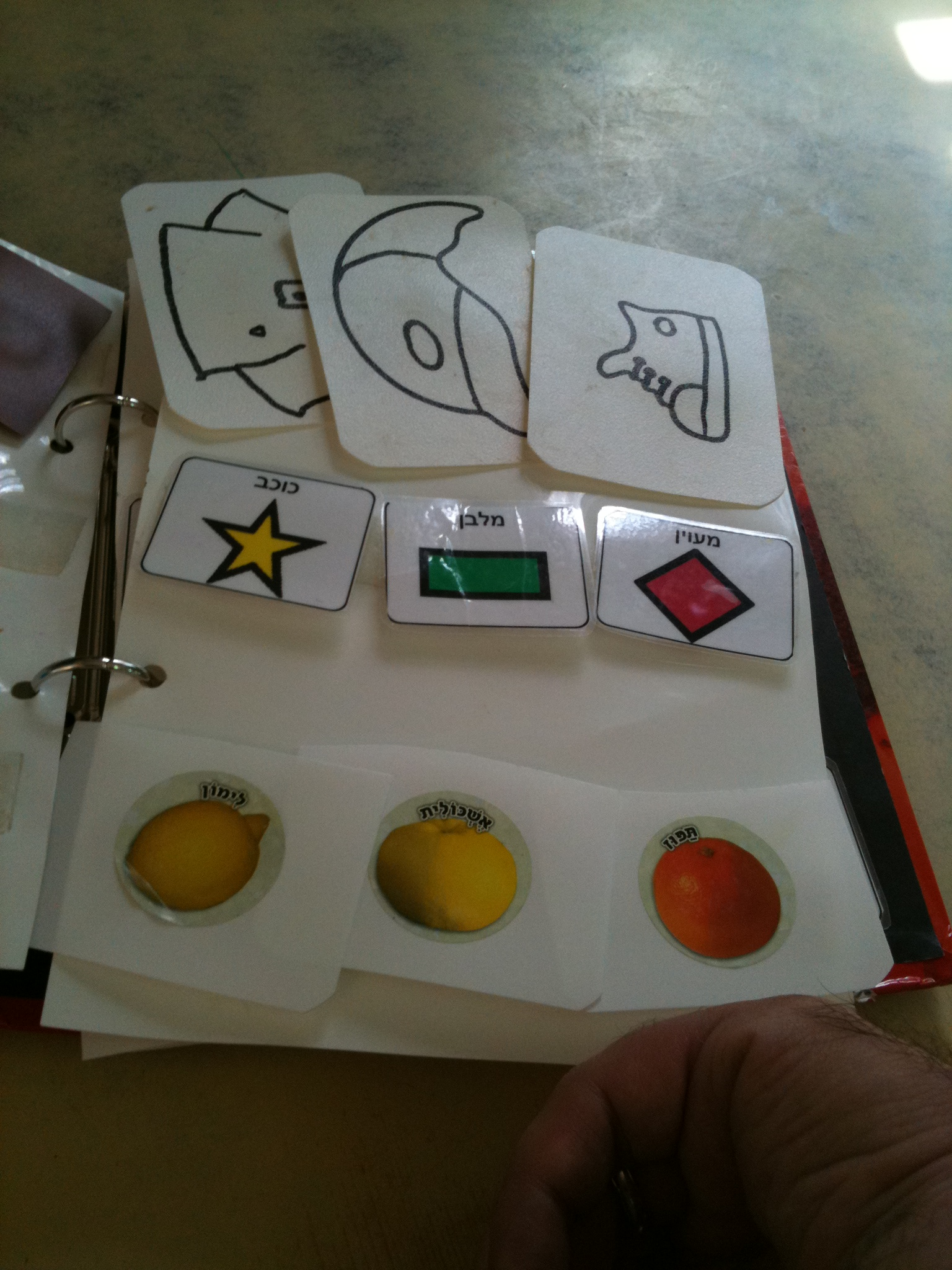 A communication board with cards symbolizing objects and ideas